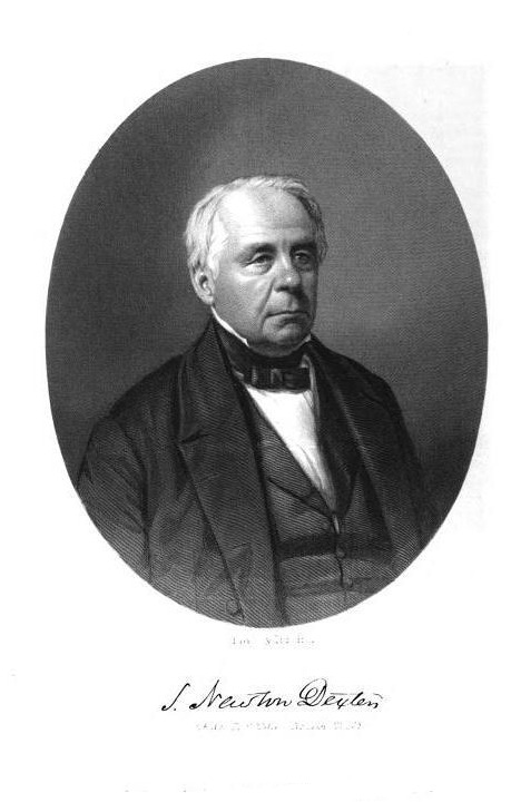 Simon Newton Dexter, from Livingston, John. Portraits of Eminent Americans Now Living: With Biographical And Historical Memoirs of Their Lives And Actions. New York: Cornish, Lamport & Co., 1853-54.